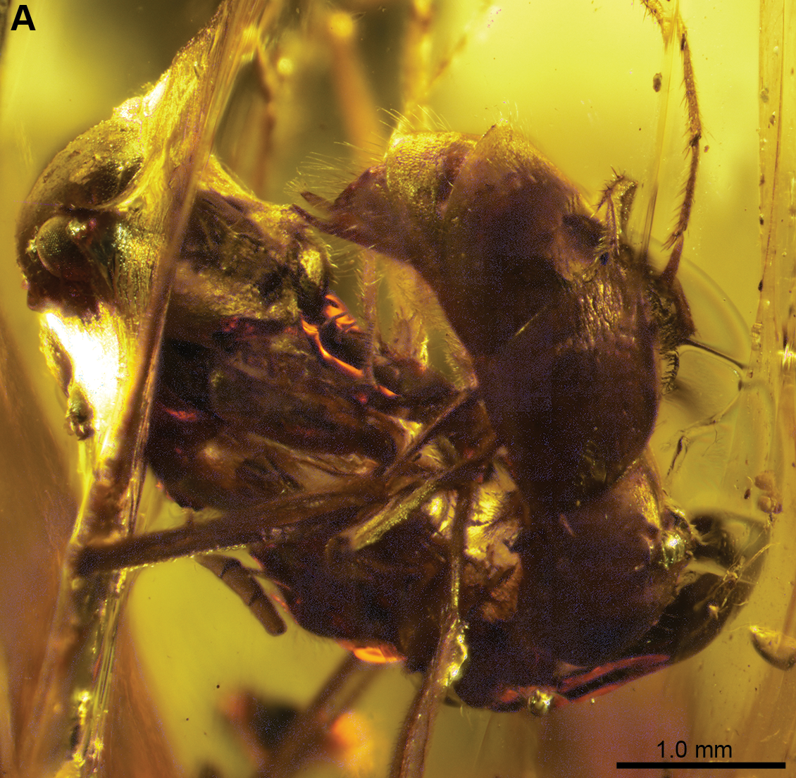 Figure 3. Gerontoformica magnus (syn Sphecomyrmodes magnus) holotype JZC Bu108A photomicrographs. A. Lateral view of entire large specimen.